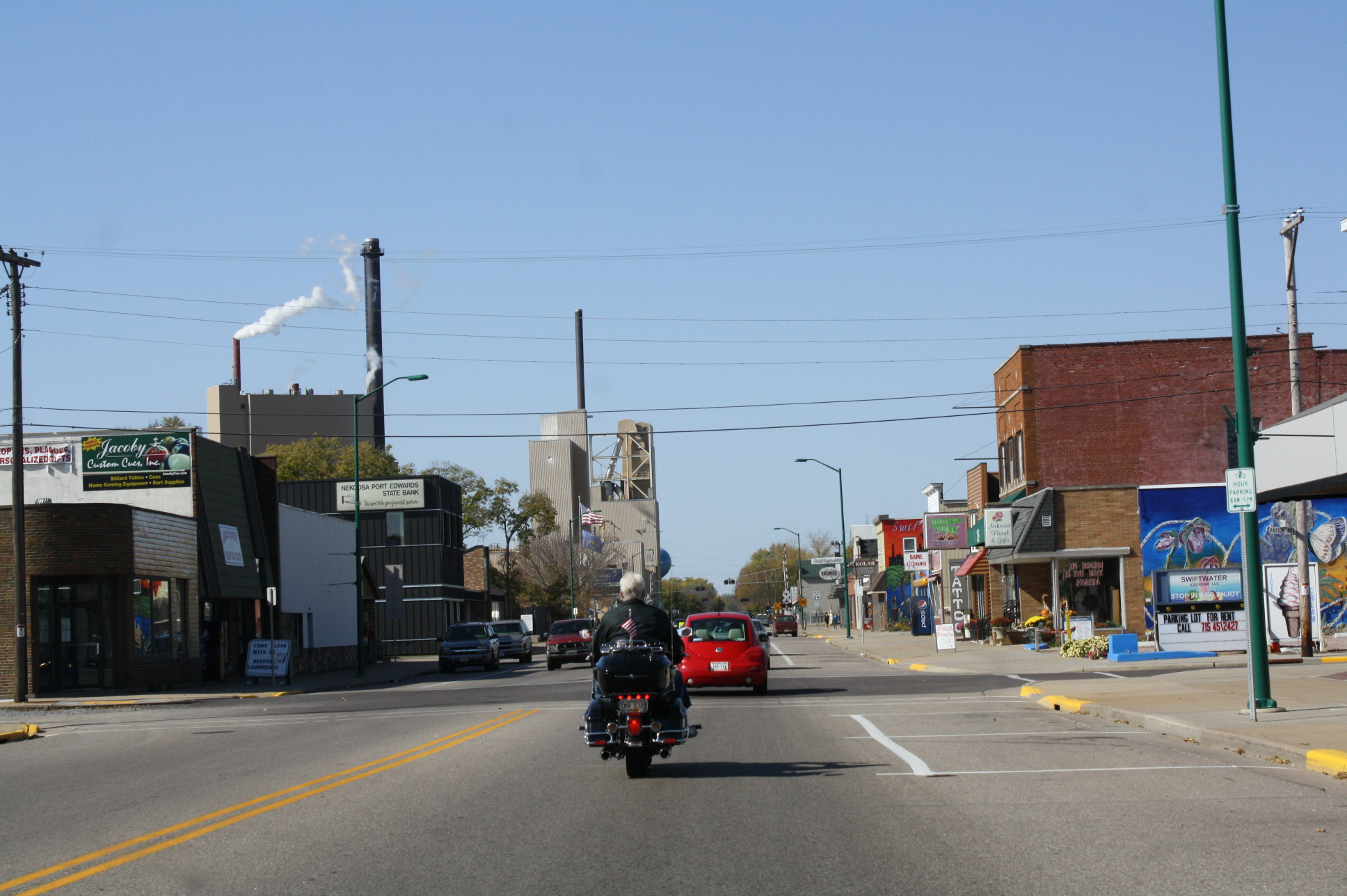 Looking west in downtown Nekoosa, Wisconsin on Wisconsin Highway 173